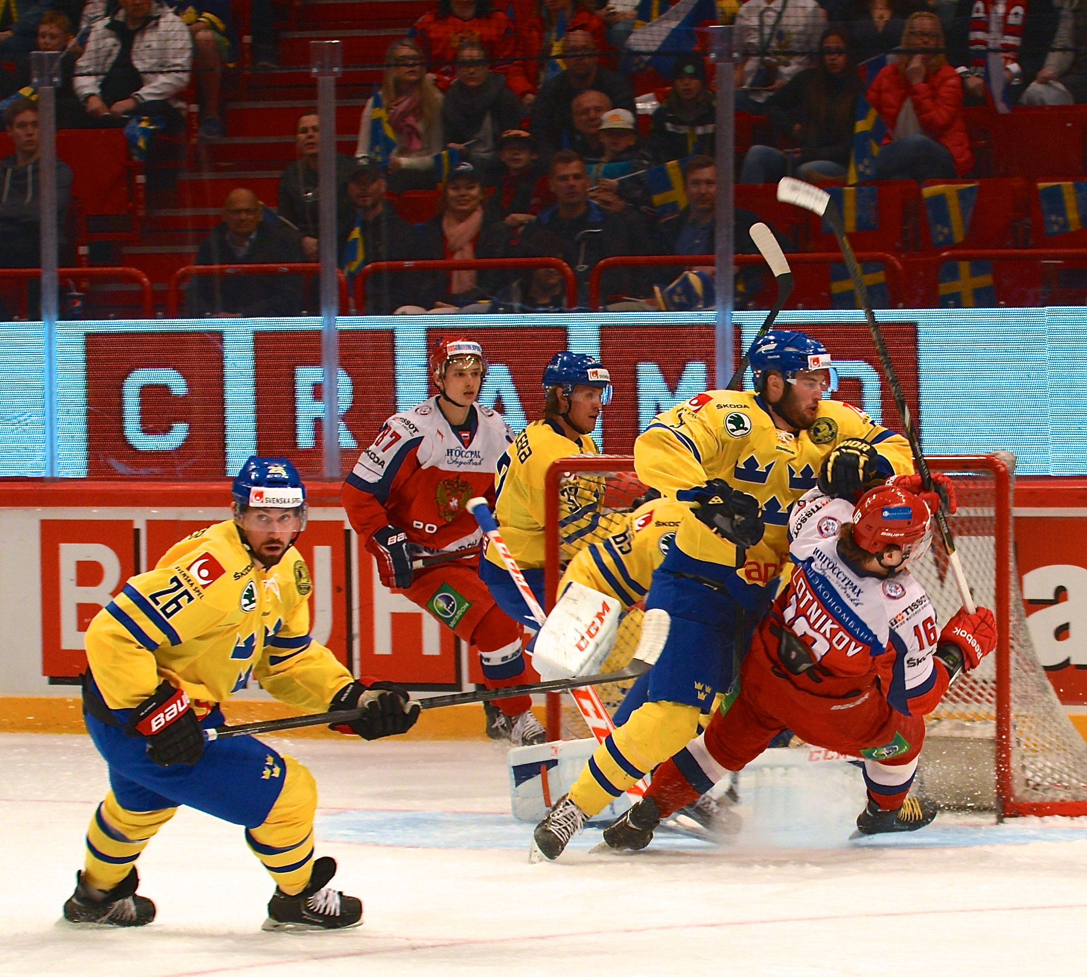 Ishockey Sweden-Russia (2-0) during Oddset Hockey Games at the Ericsson Globe in Stockholm on May 4th, 2014.